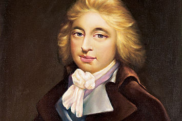 This is a painting of composer Jan Ladislav Dussek.